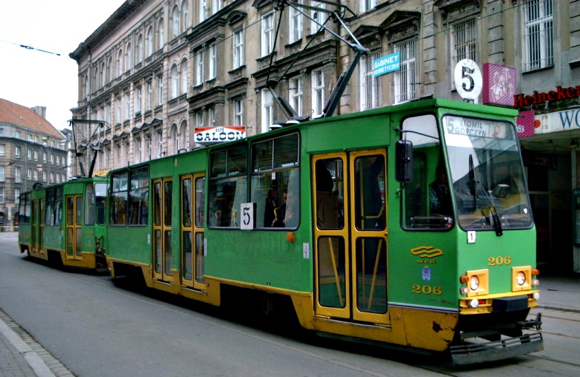 Konstal 105N upgraded to 105Na standard, line no.5, Gwarna str. Poznań, Poland Zelf geschoten dia Categorie:Afbeelding tram